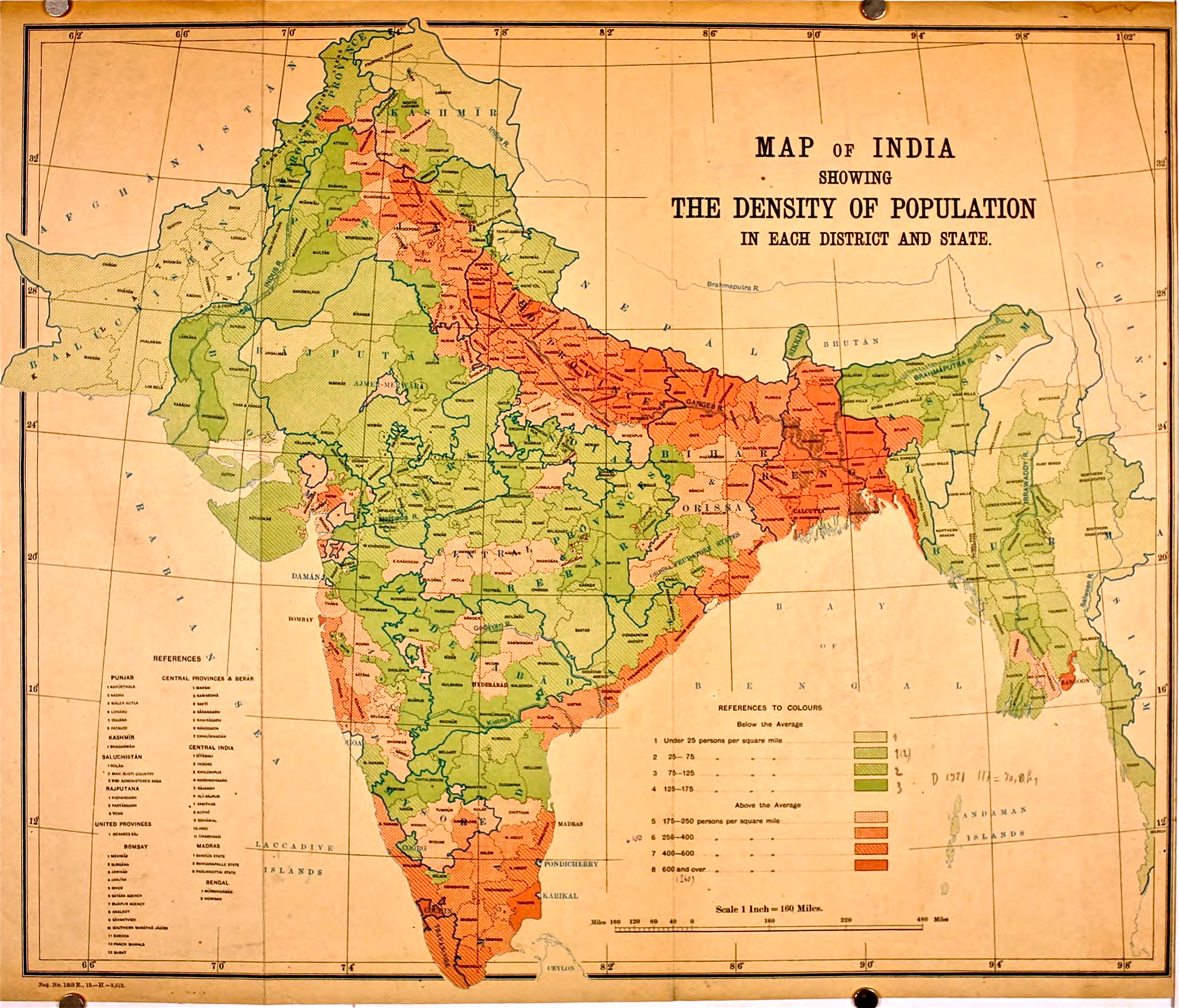 Population density map of India in 1911 The color coding is in number of people per square mile (1 sq mile = 2.59 sq kilometers). Image from page 7 of "Census of India, 1911" Publication year:1912 Authors: British India Census Commissioner Publisher: Calcutta : Superintendent government printing, India